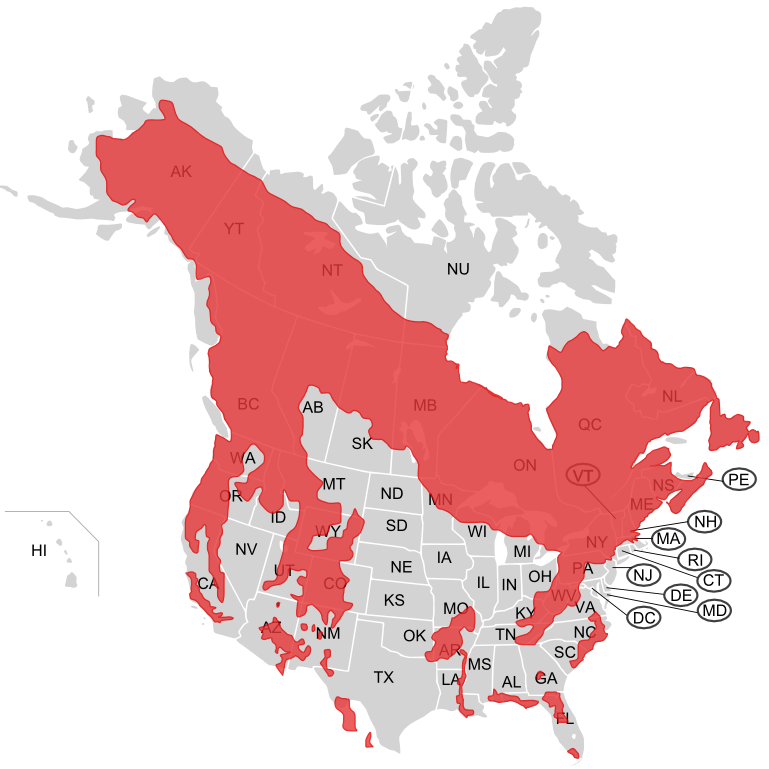 Map of black bear (ursus americanus).